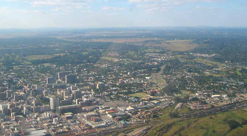 Central zone of Harare